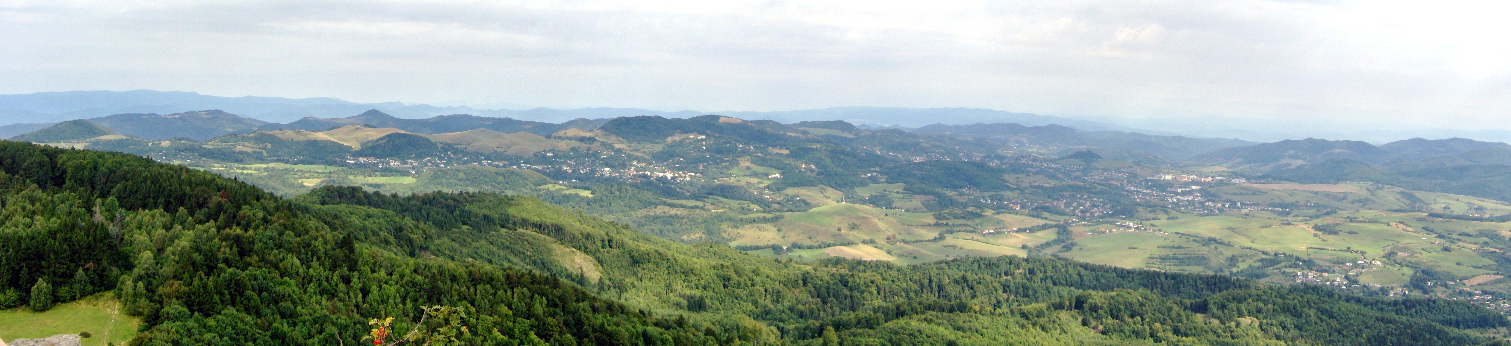 View from Sitno, Banská Štiavnica, 2011-9-1